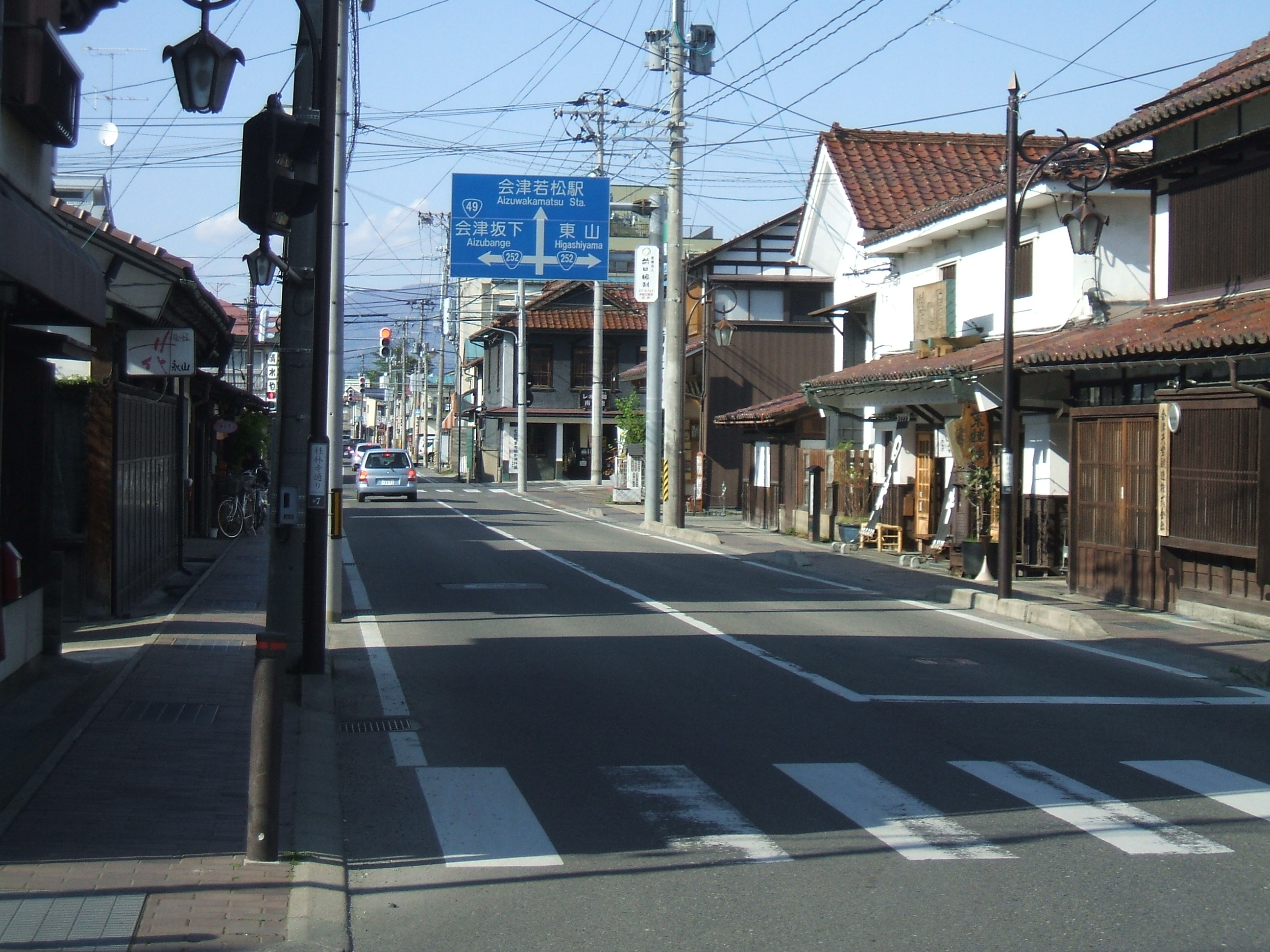 This is the landscape of Keirinji-dori Street at Aizuwakamatsu, Fukushima.